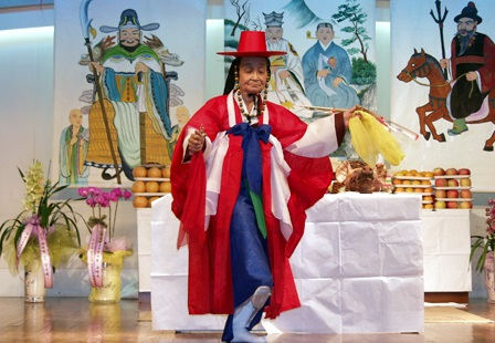 A mudang (Korean female shaman) holding a ritual (gut) to placate the angry spirits of the dead preventing them from haunting the lives of her clients. A depiction of Odin riding Sleipnir from an 18th-century Icelandic manuscript. Note: Studying Korean shamanism (Muism) and mythology you may notice the many similarities it has with other Eurasian religions and the Germanic traditional religions (for example the triune conception of God—Haneullim—manifest in Hwanin, Hwanung and Dangun, corresponding to Wotan, Thor and Ing-Frey; but also the etymological connection Dangun•Tangur—Tengri—Tonger•Thunor•Thor). In the photo above, the god represented on the cloth to the left of the priestess (right of the viewer) has striking resemblance to depictions of Wotan.